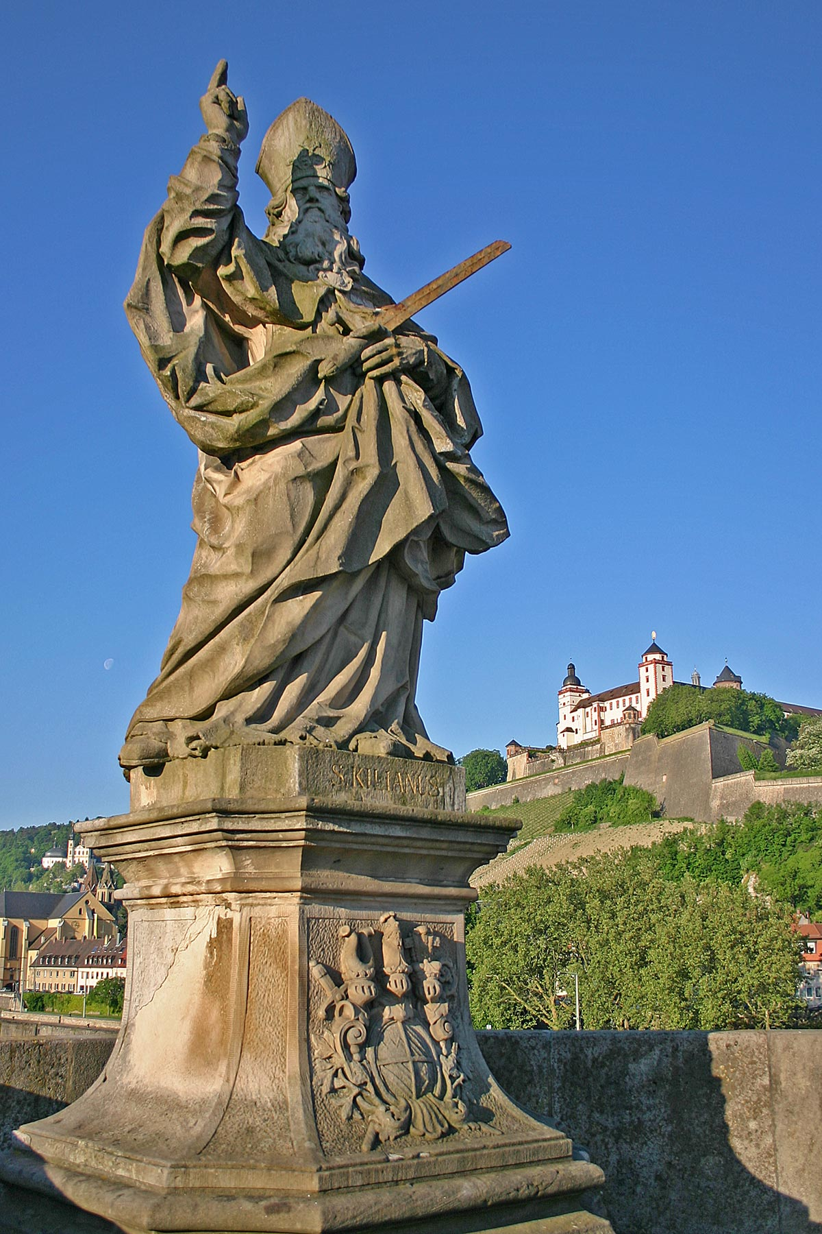 franconian saint Kilian, old Mainbrücke, Würzburg